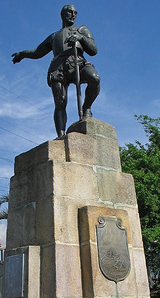 Fundador de Santiago de Cali.